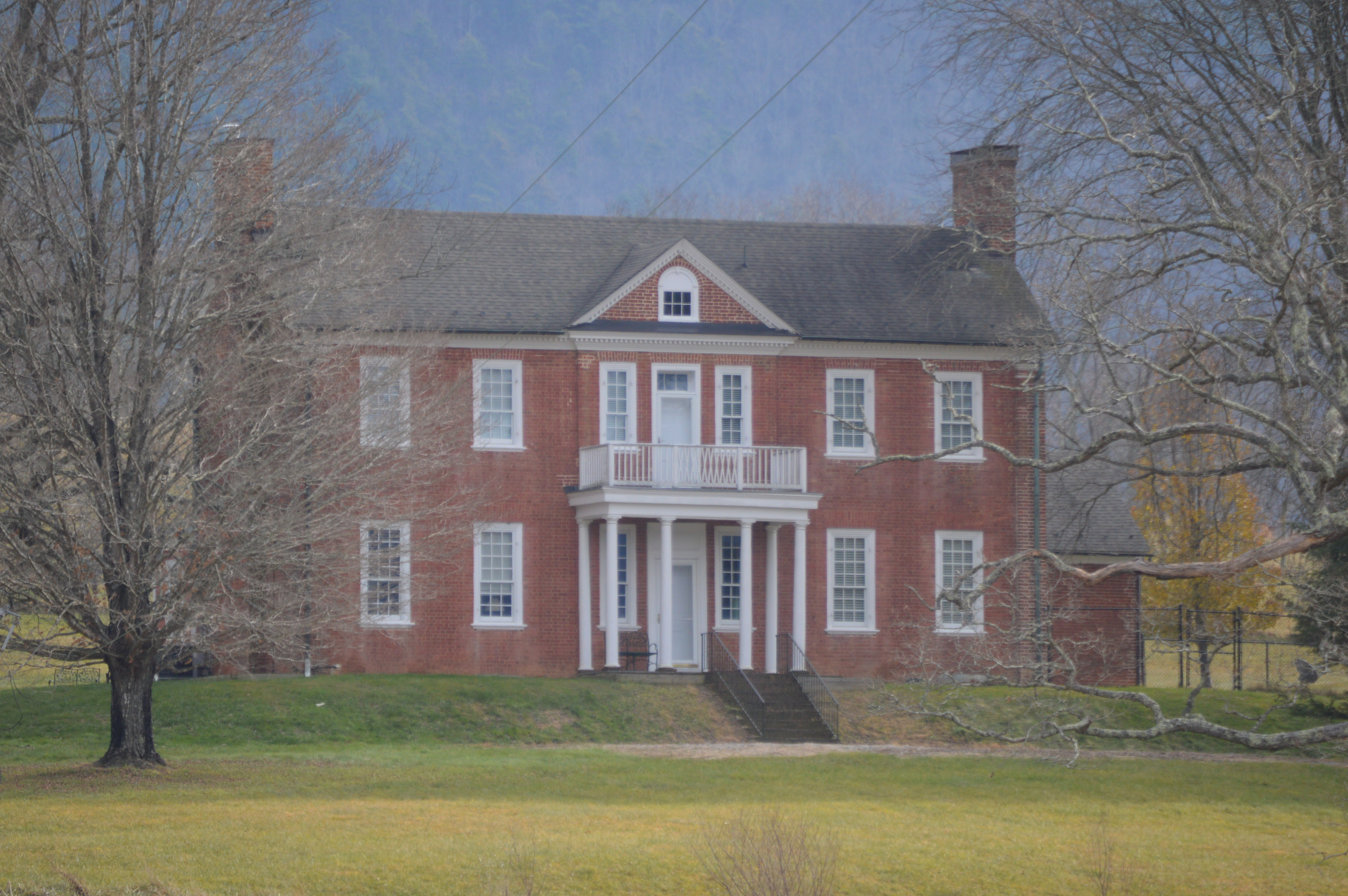 Distant view of The Wilderness, located at 13954 Deerfield Road southwest of Deerfield in the northeastern corner of Bath County, Virginia, United States. Built in 1816, it is listed on the National Register of Historic Places.